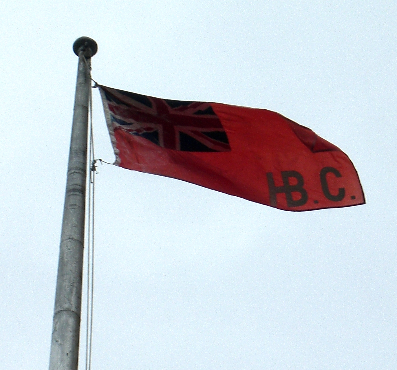 Hudsons Bay Company Flag flying above Nanaimo Bastion, Nanaimo, British Columbia - edited and cropped version